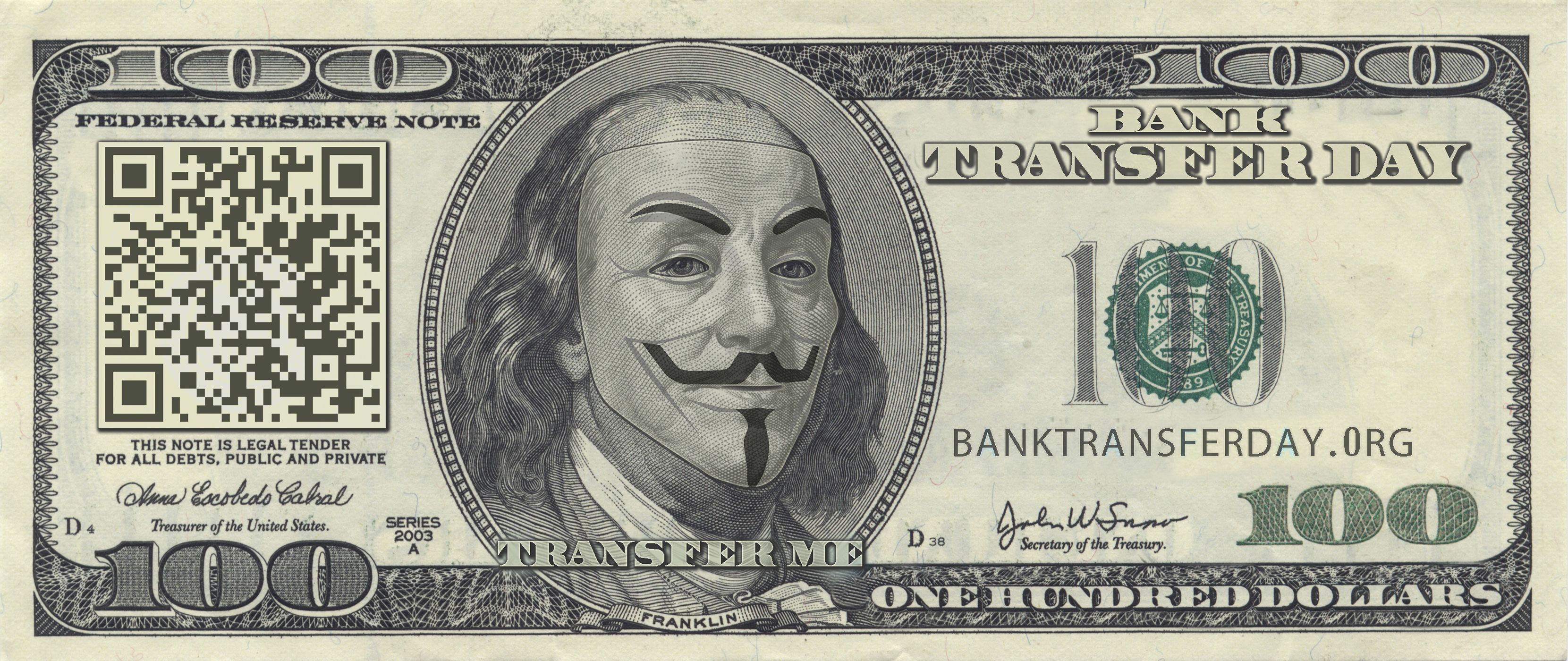 Bank Transfer Day poster: $100 bill featuring Guy Fawkes mask over Benjamin Franklin.